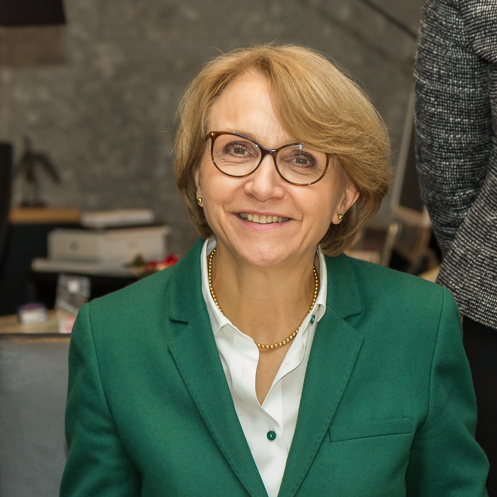 Inaugural visit of the ambassador of France to Germany in Cologne.